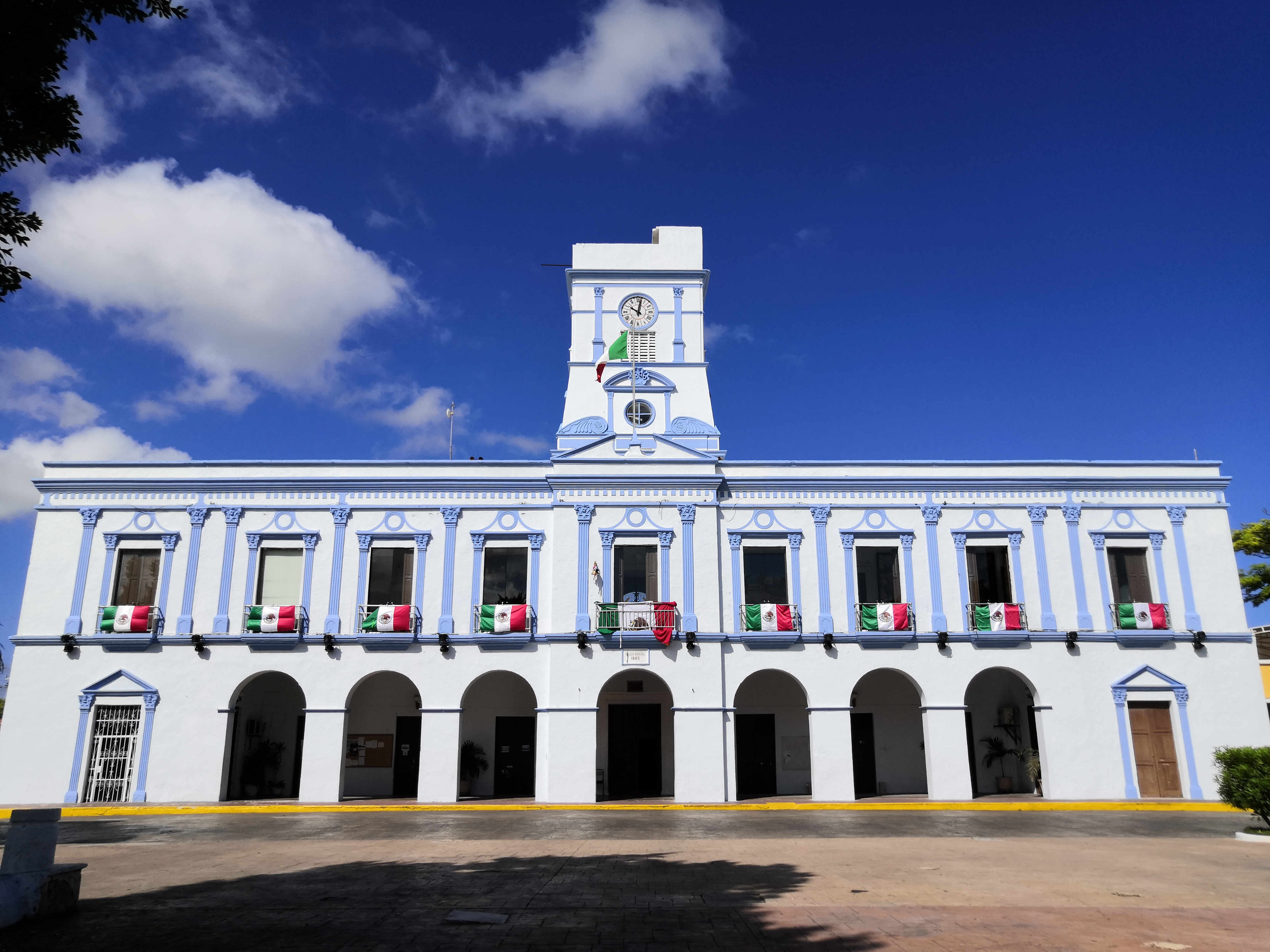 Photography of the Progreso Municipal Palace, state of Yucatan, Mexico. The Municipal Palace (or City Hall) is seat of the Progreso Municipality Council, and office of the Mayor.